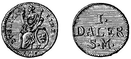 Token money from Sweden